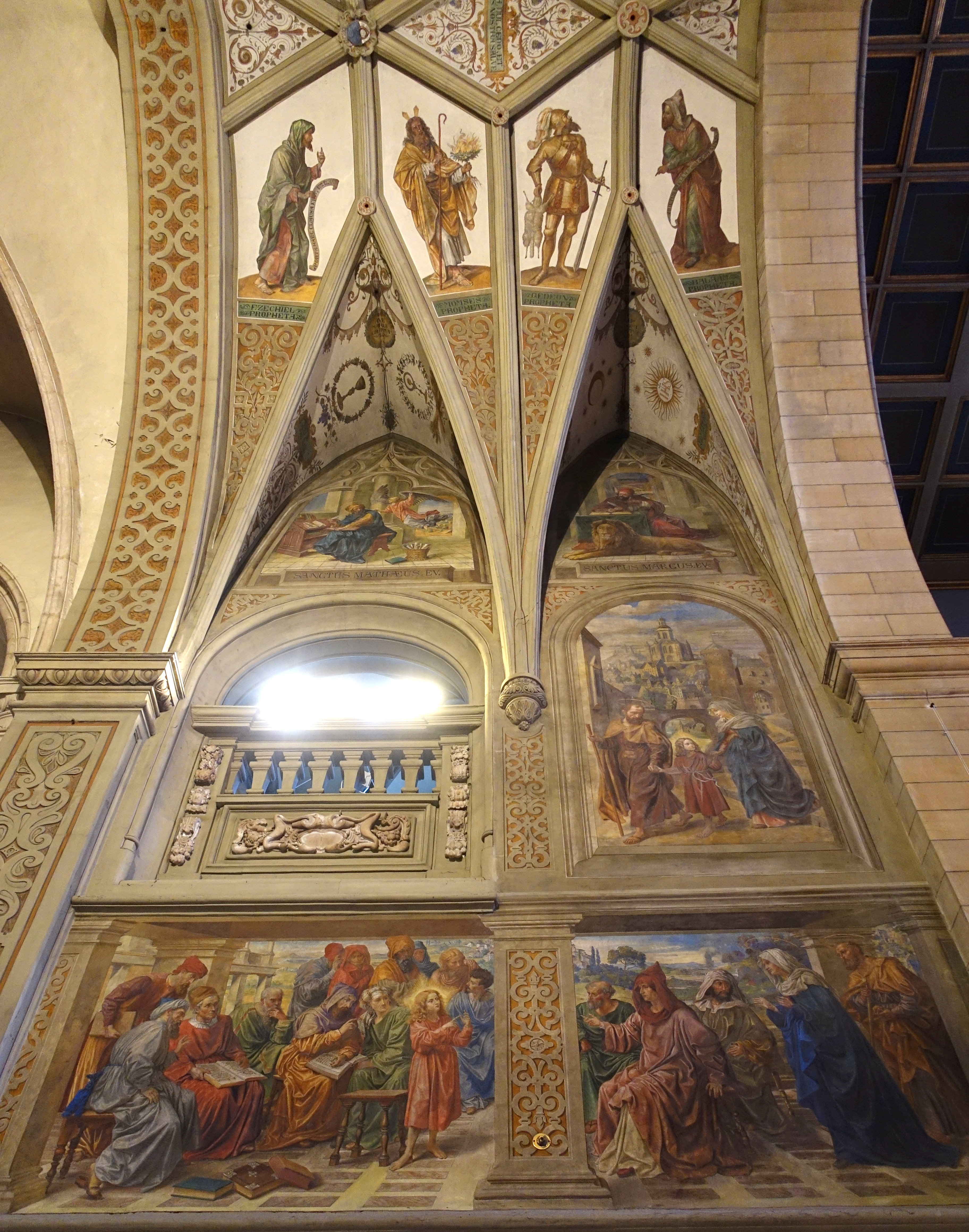 Cathédrale Notre-Dame de Luxembourg, Luxembourg City, Luxembourg. Artwork is old enough so that it is in the public domain.